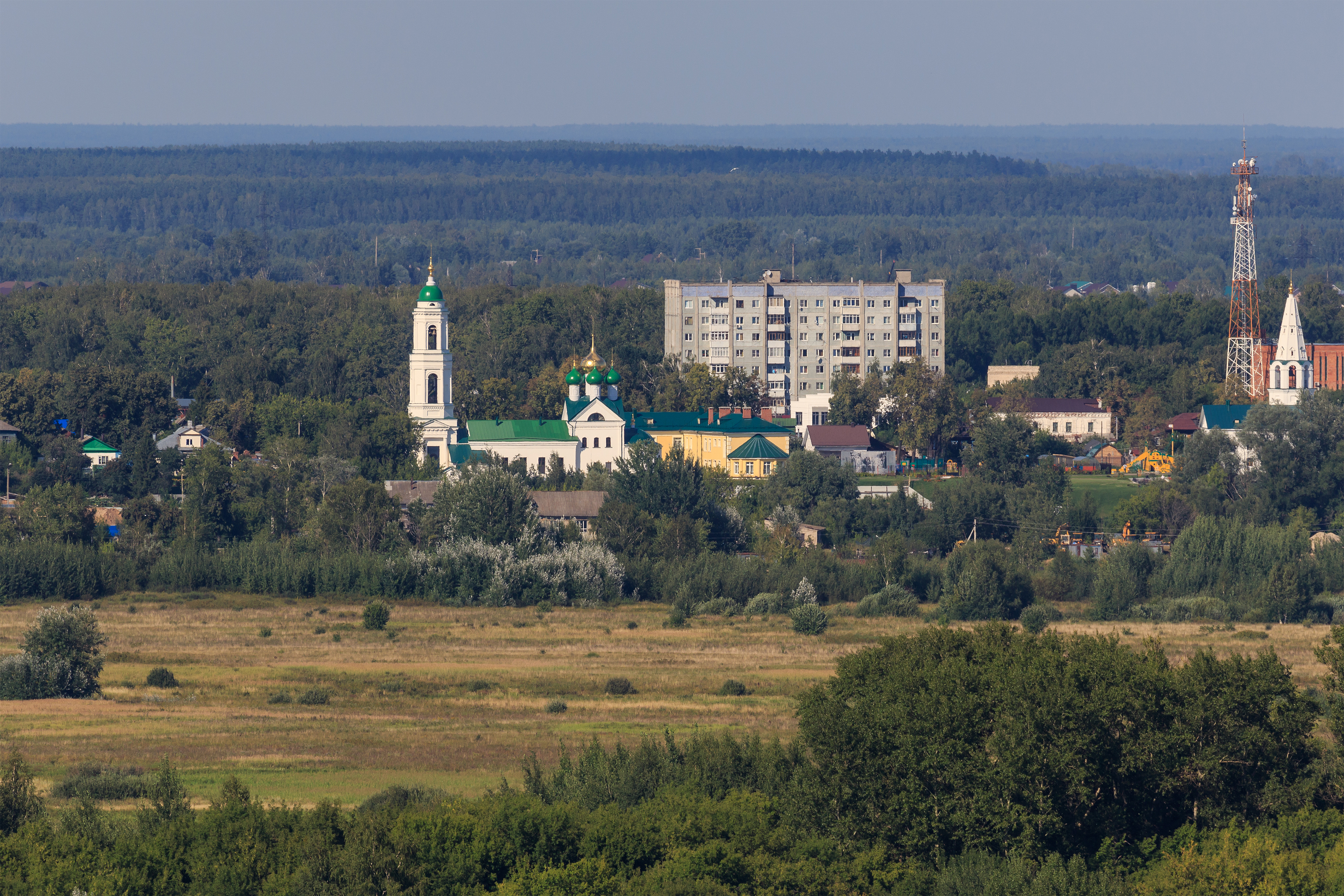 Remote view of Bor from Nizhny Novgorod, Russia.